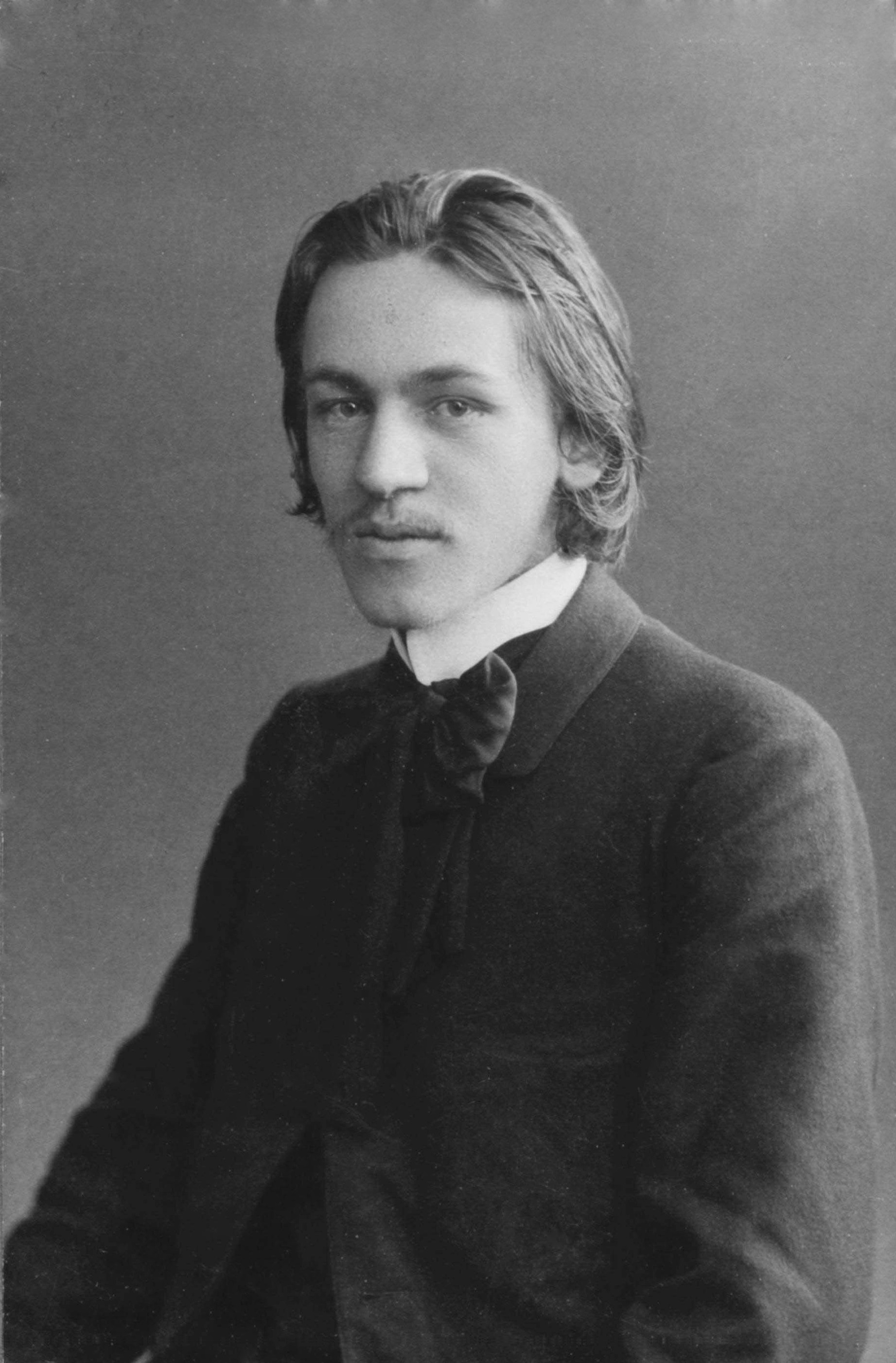 Portrait photograph of Blaise Cendrars